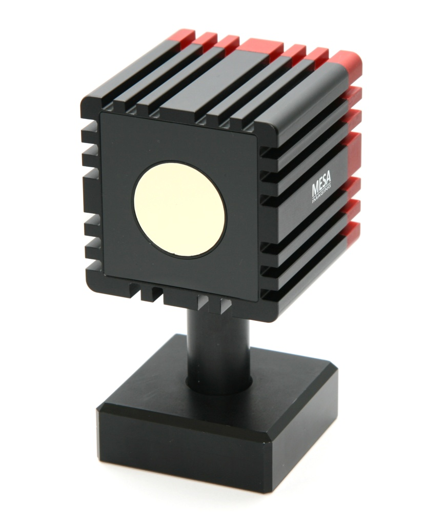 TOF (Time-of-Flight) camera, providing real-time 3D-images of its surrounding